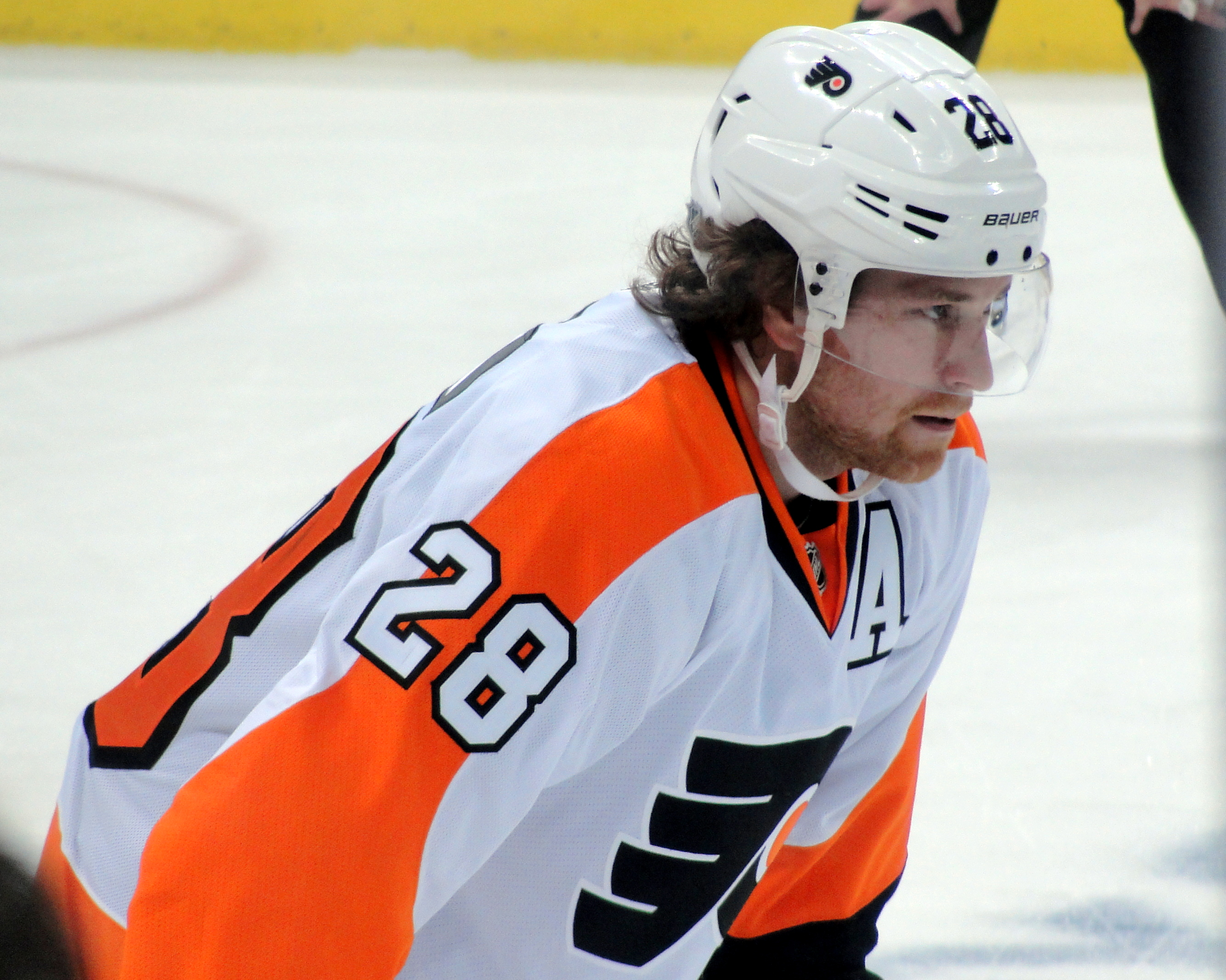 Philadelphia Flyers forward Claude Giroux during an April 13, 2012 playoff game against the Pittsburgh Penguins at Consol Energy Center in Pittsburgh, PA. Giroux set a team record for most points (6) during a single playoff game.